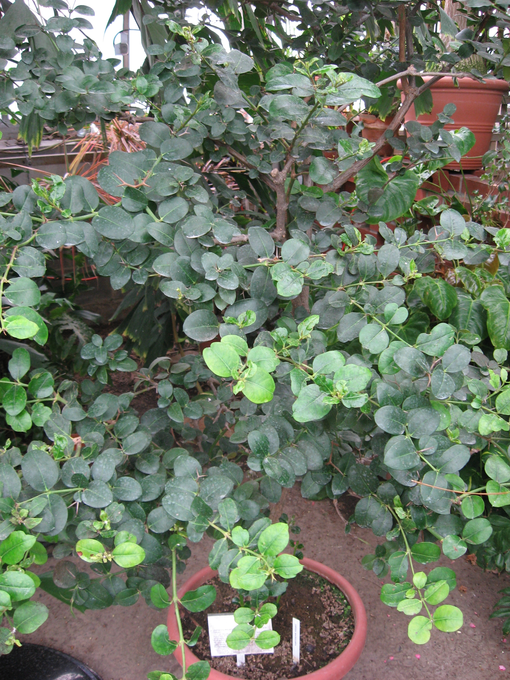 A picture of Carissa macrocarpa.